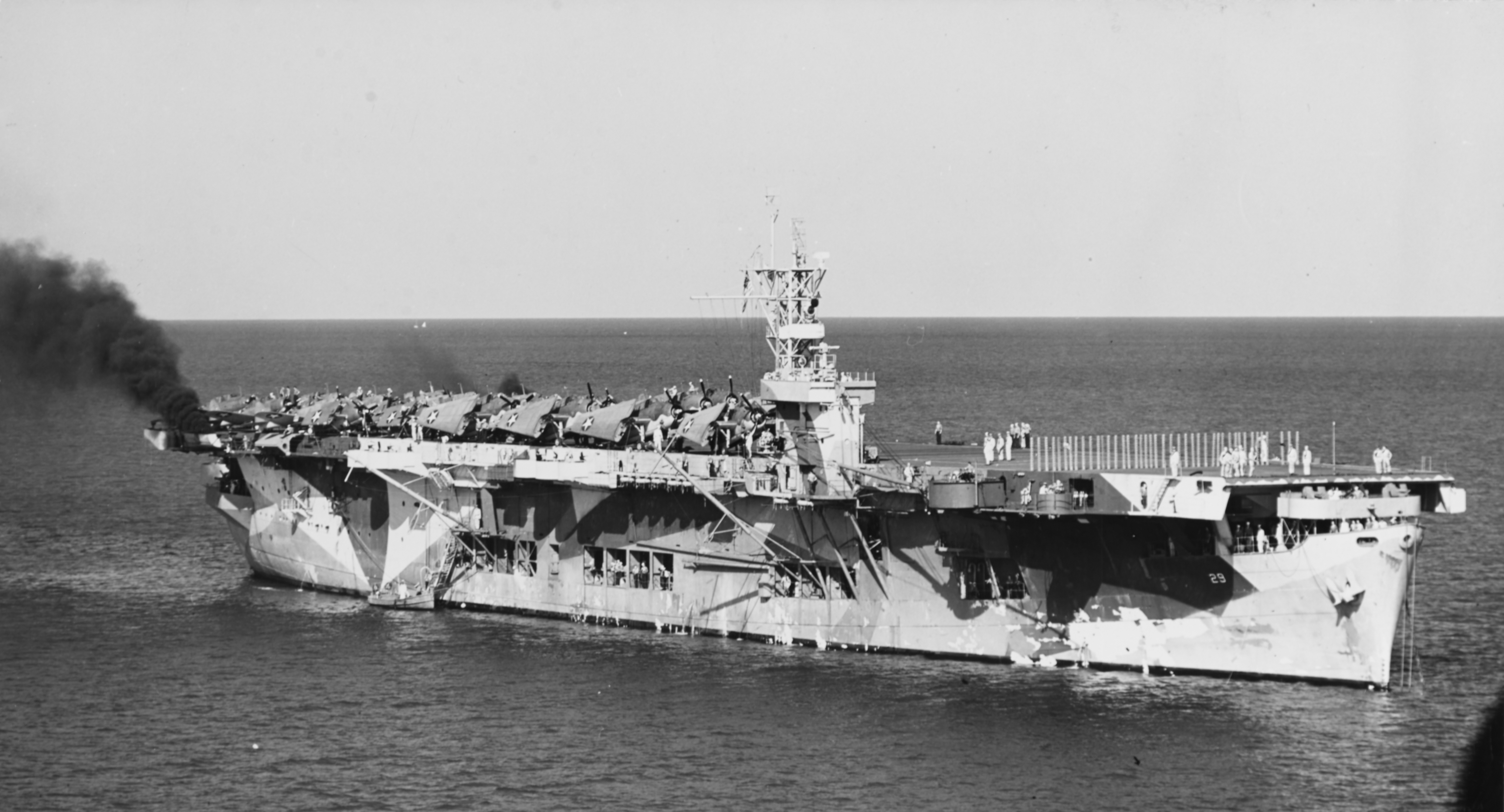 The U.S. Navy escort carrier USS Santee (ACV-29) at anchor, 16 October 1942. Note the location of the ship's main machinery smoke stacks on the side of the flight deck aft. Santee is painted in Camouflage Measure 17.